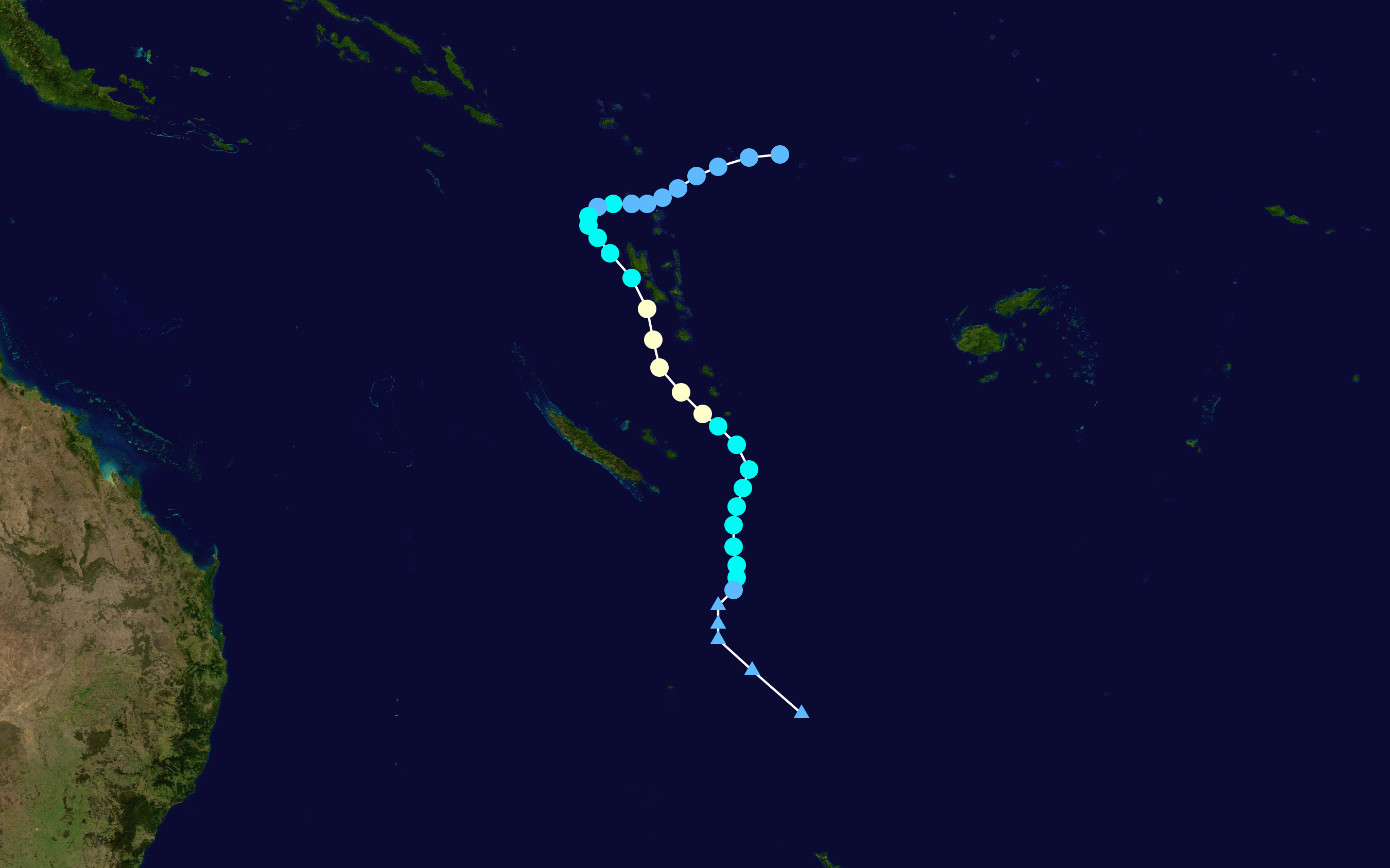 Cyclone Sose (2001) track. Uses the color scheme from the Saffir-Simpson Hurricane Scale.